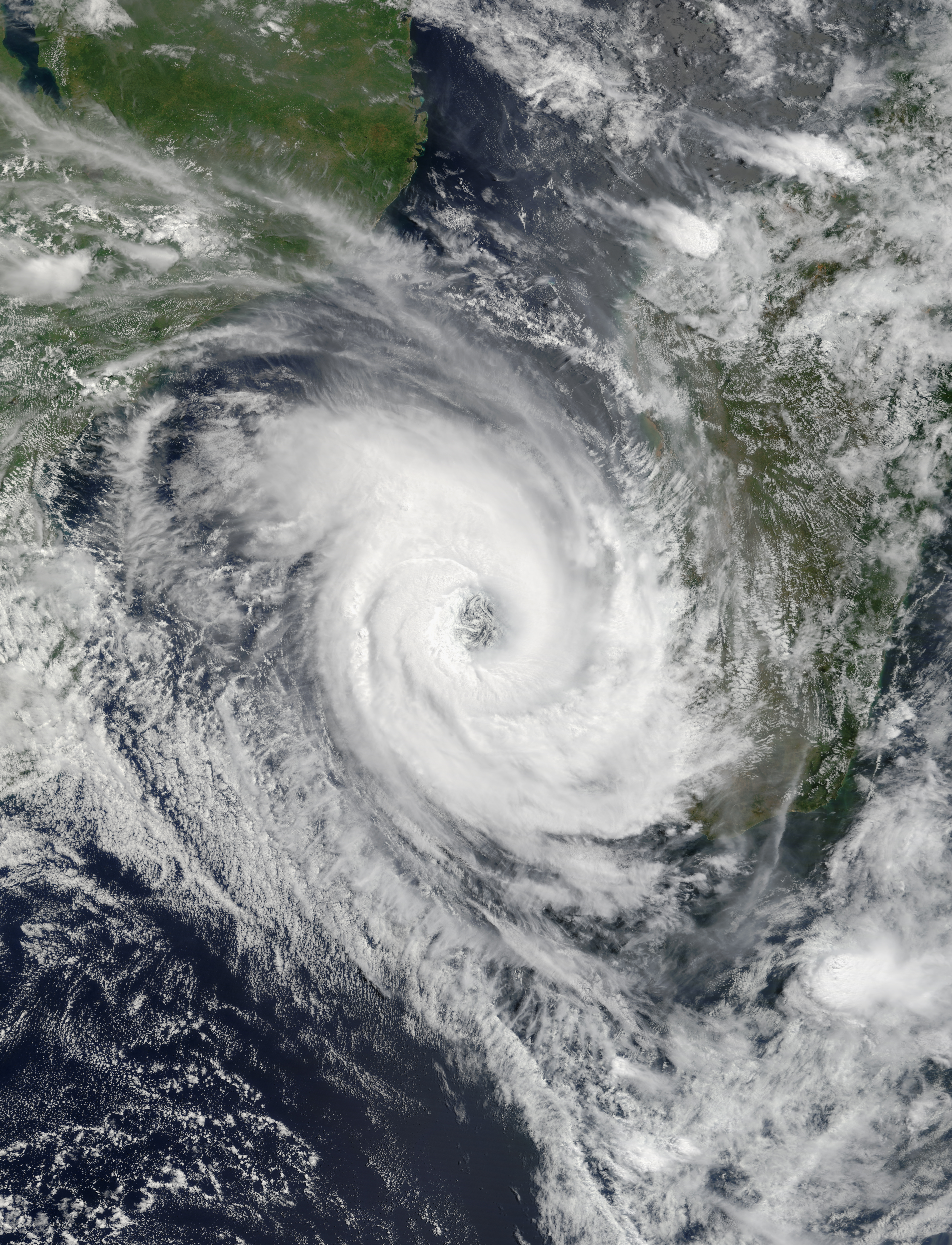 Tropical Cyclone Haruna approaching Madagascar on February 21, 2013